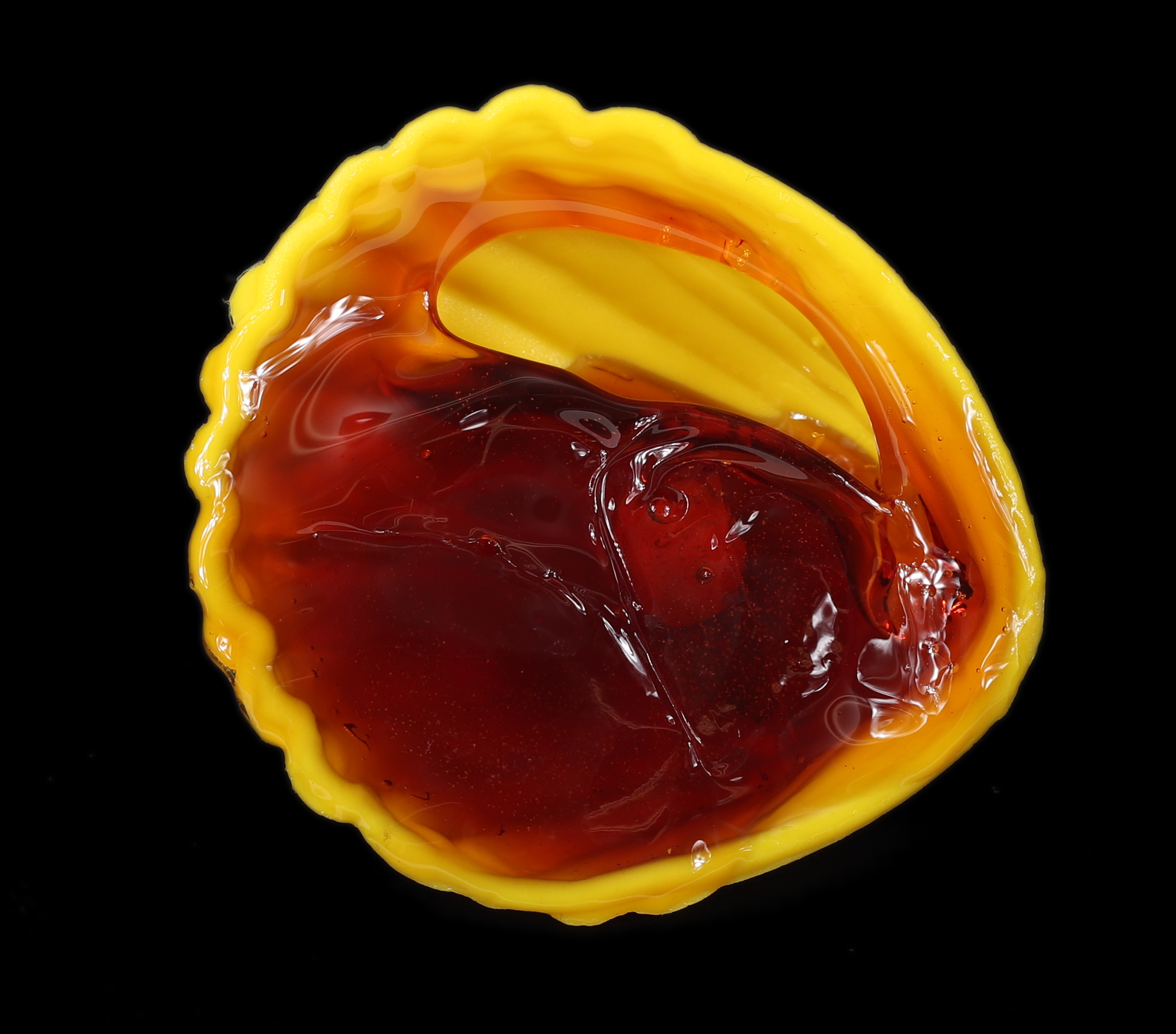 Roudoudou is a cooked sugar confectionery poured into a plastic shell.